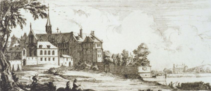 The Abbaye de Longchamp in the 17th century